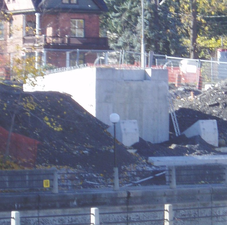 The under construction Rideau Canal pedestrian bridge